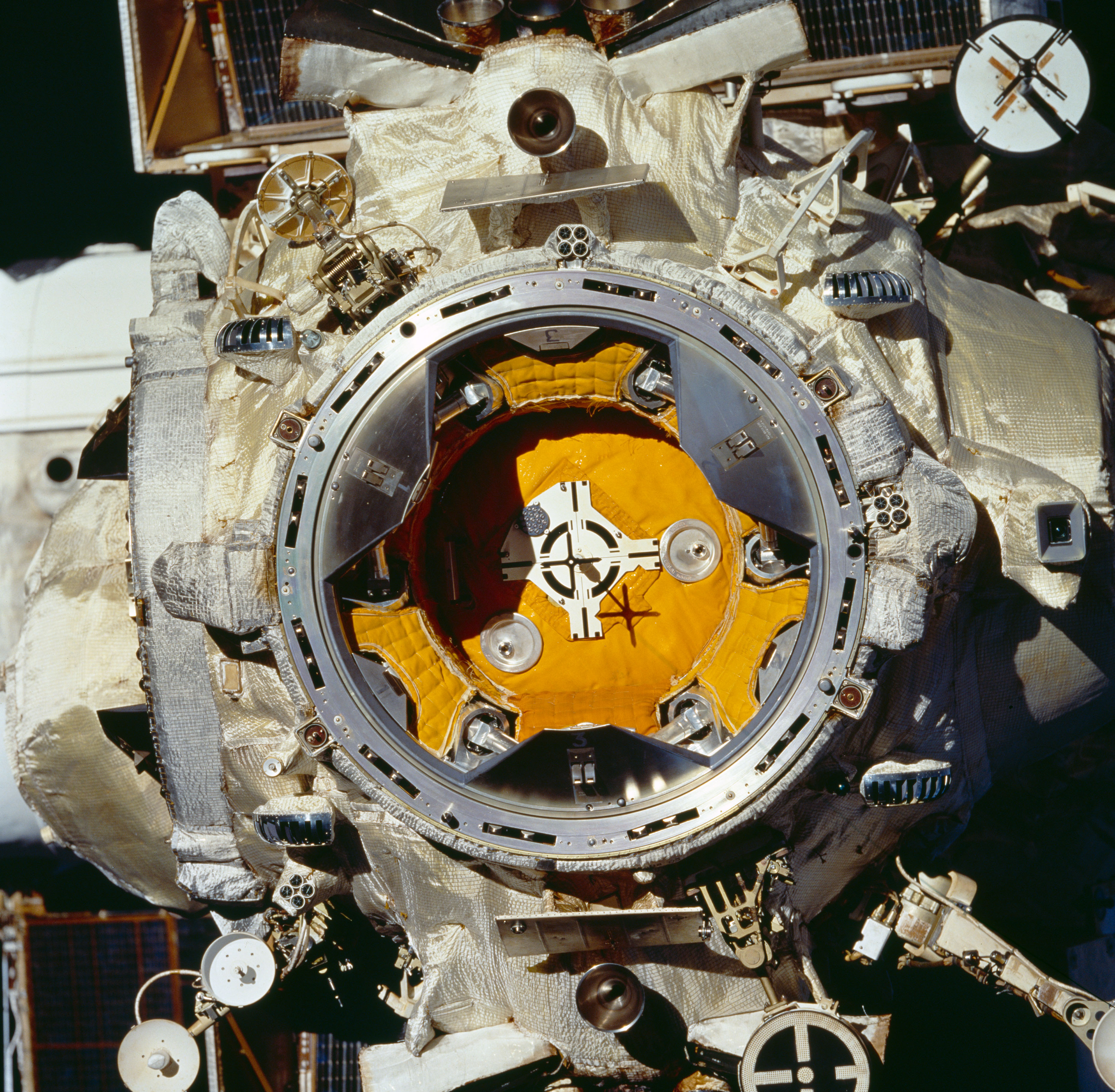 This close-up scene of the Mir space station's docking target was exposed by one of the STS-63 crew members using a handheld Hasselblad camera during close proximity operations between the Space Shuttle Discovery and the Mir. Image ID: STS063-711-069